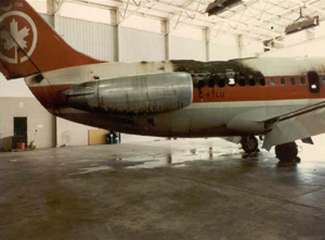 Fire damage of DC-9 C-FTLU (Air Canada Flight 797).